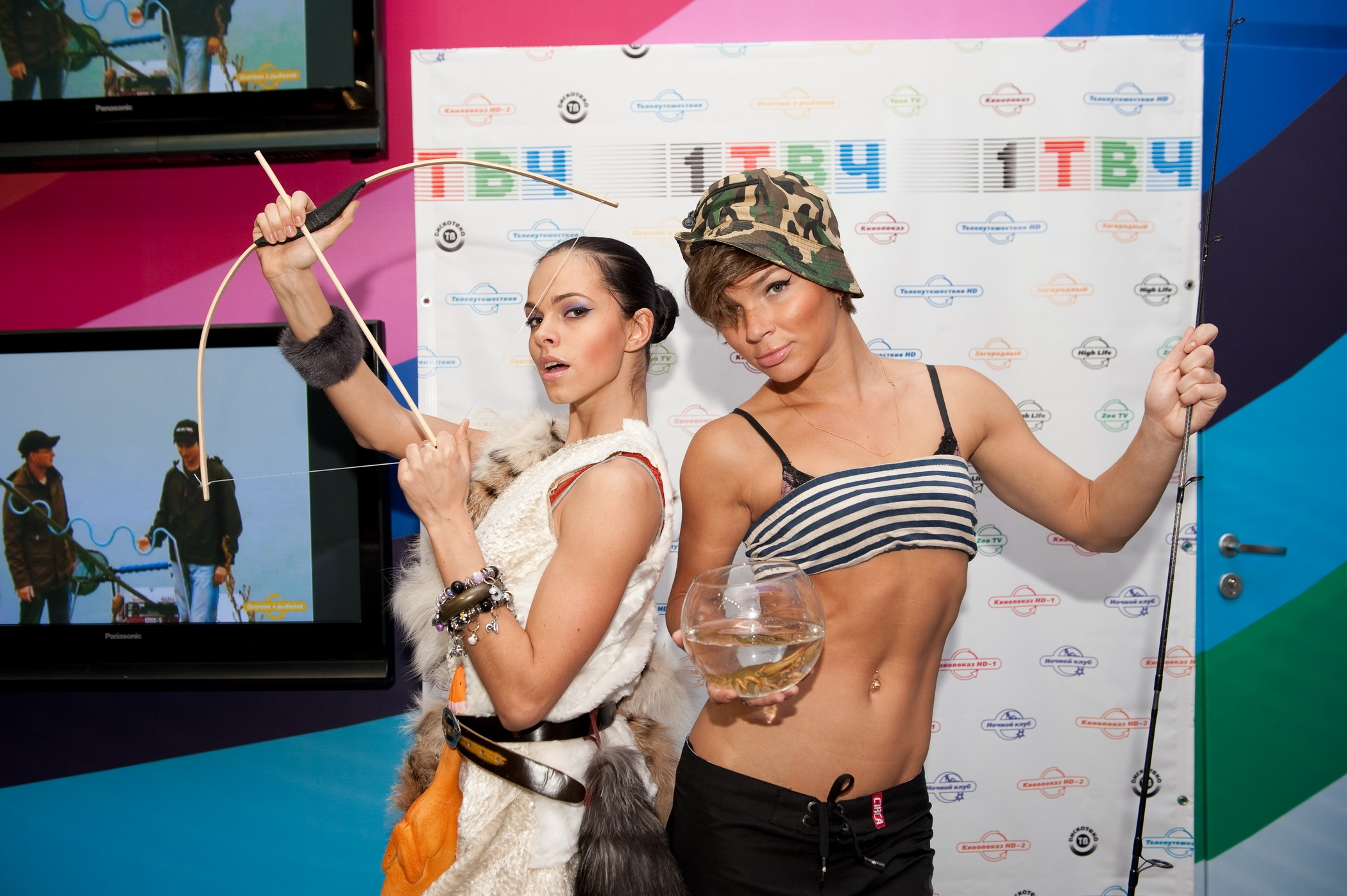 presentation of the channel "Охотник и рыболов" at the international exhibition CSTB-2011